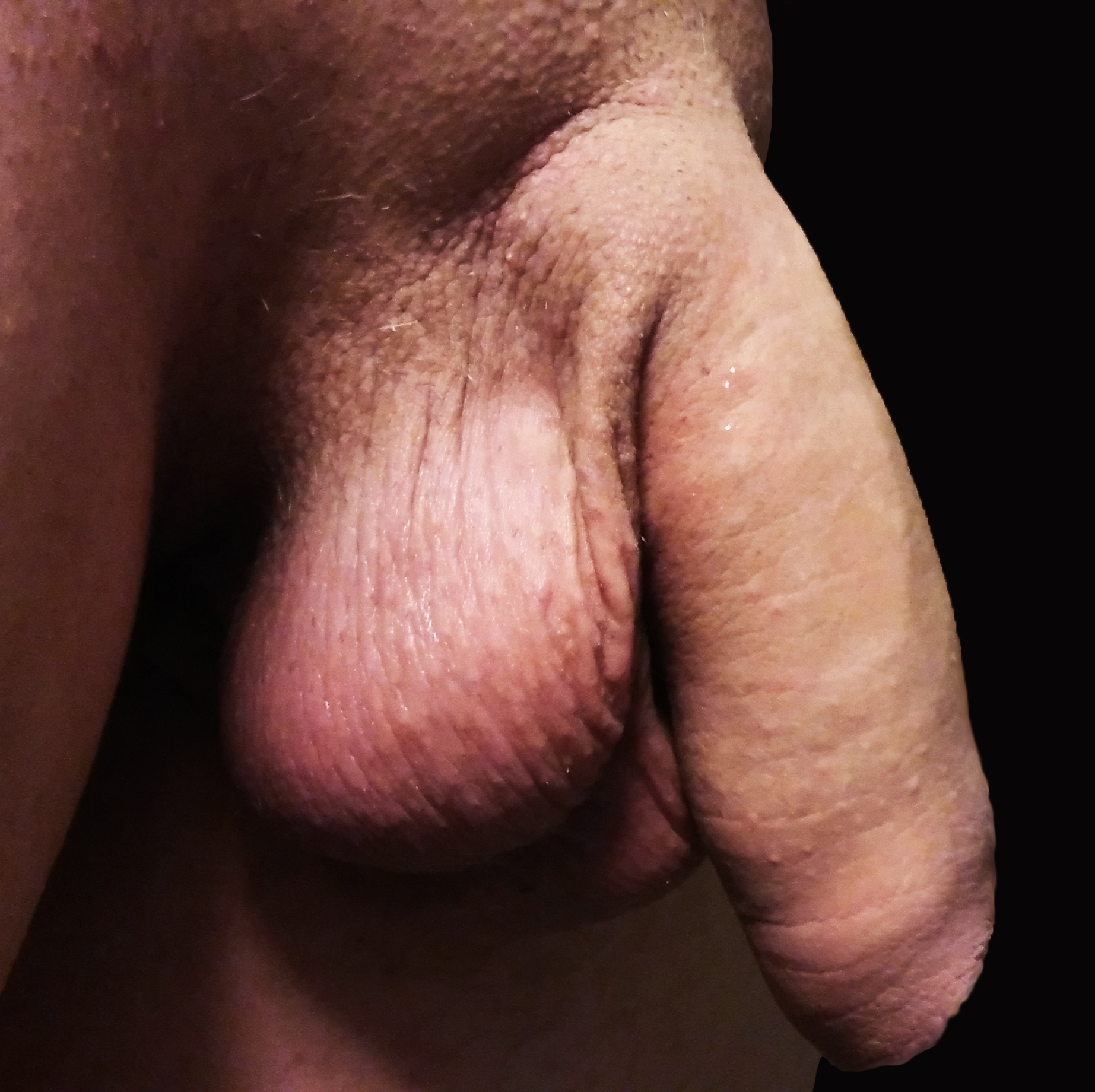 Human penis in a flaccid state